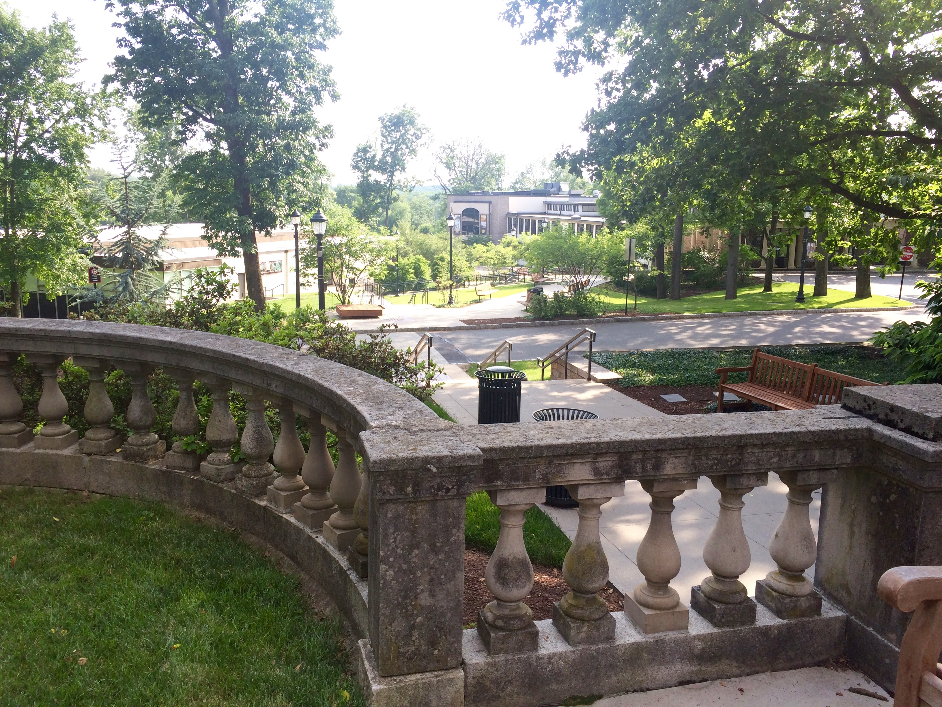 The Hun School of Princeton in Princeton, New Jersey, looking at the campus from the porch of Edgerstoune, the administration building.